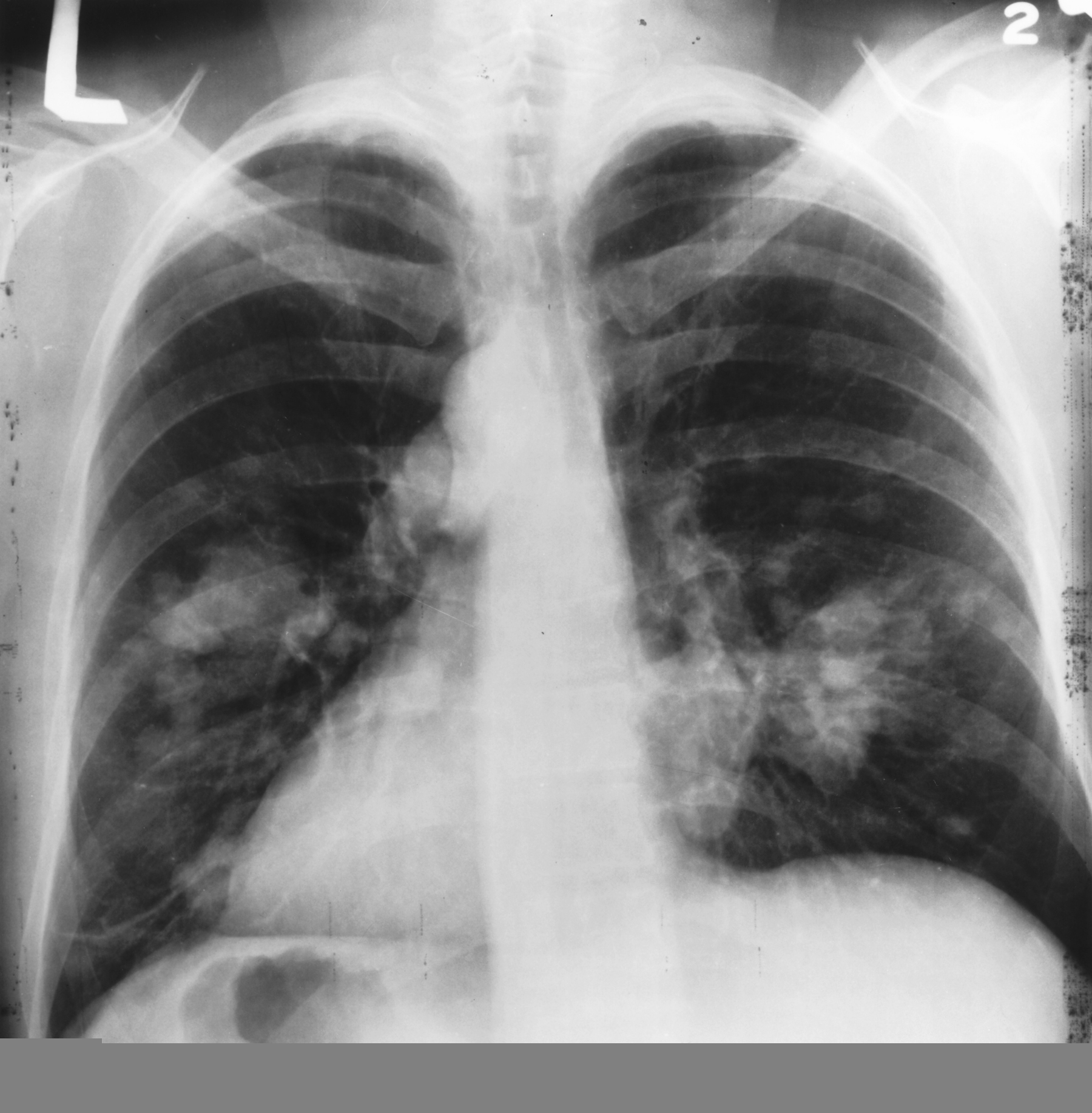 This is an x-ray image of a chest. Both sides of the lungs are visible with a growth on the left side of the lung, which could be lung cancer.